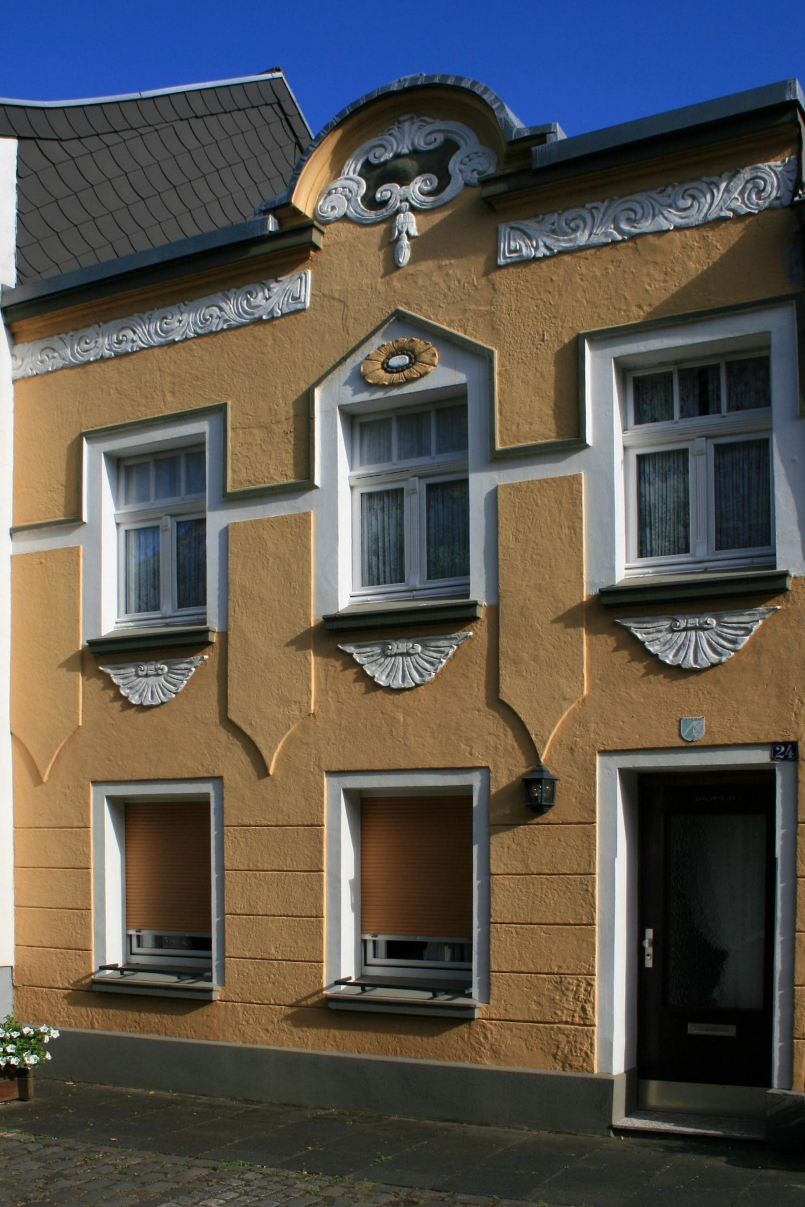 Cultural heritage monument No. St 020 in Mönchengladbach